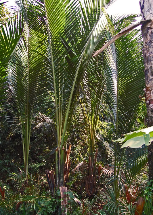 Metroxylon sagu, the leaves are cut for thatching. Bogor, West Java, Indonesia